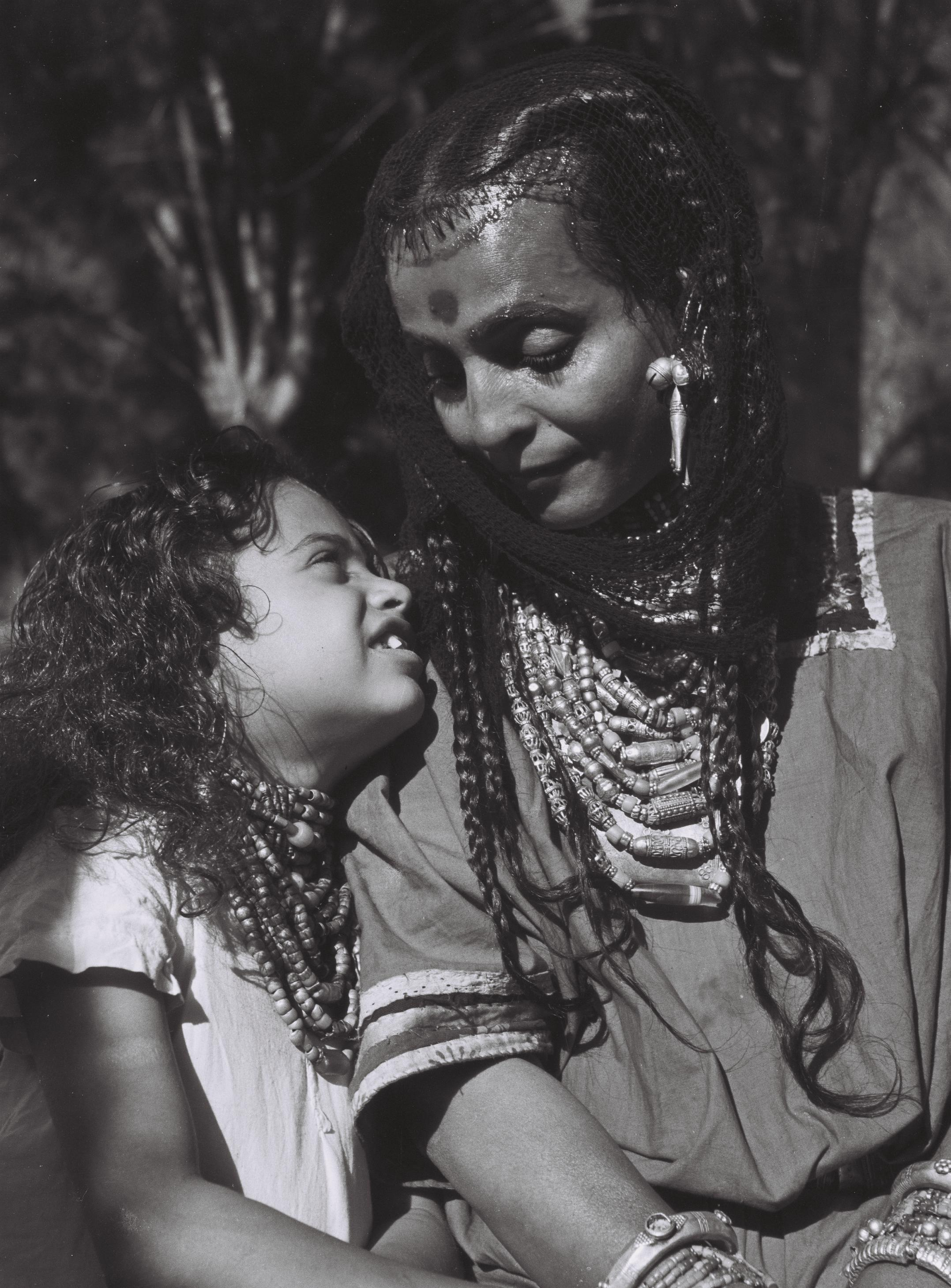 A YEMENITE HABANI WOMAN AND HER CHILD. אם ובת, עולות חבניות מתימן.